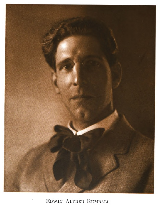 Edwin A. Rumball was minister of the First Unitarian Church of Rochester, New York, from 1908 to 1915 and editor of a magazine called The Common Good of Civic and Social Rochester from 1910 to 1914.